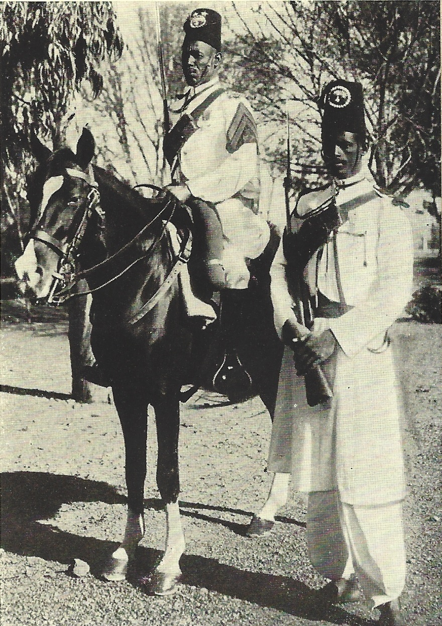 Italian Ascari Troops during the Second Italo-Senussi War in Libya.